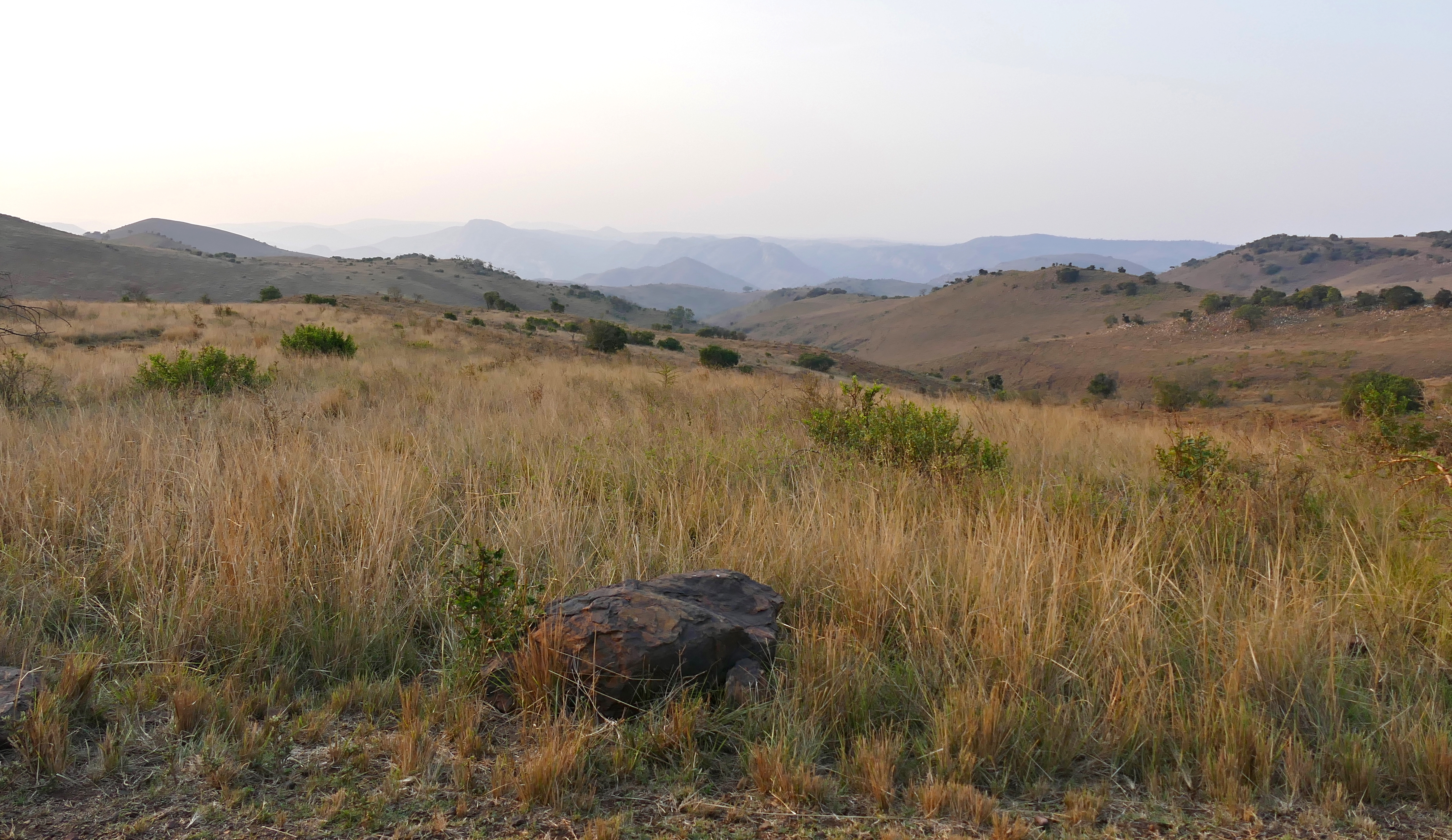 Vamela Lookout Point, Ithala Game Reserve, KwaZulu-Natal, SOUTH AFRICA